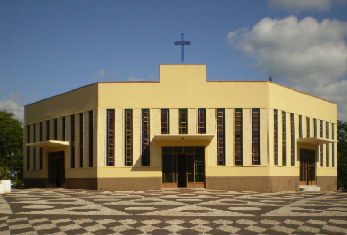 Igreja Católica